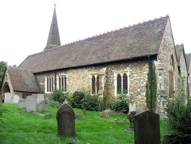 St John the Baptist, Erith, Kent